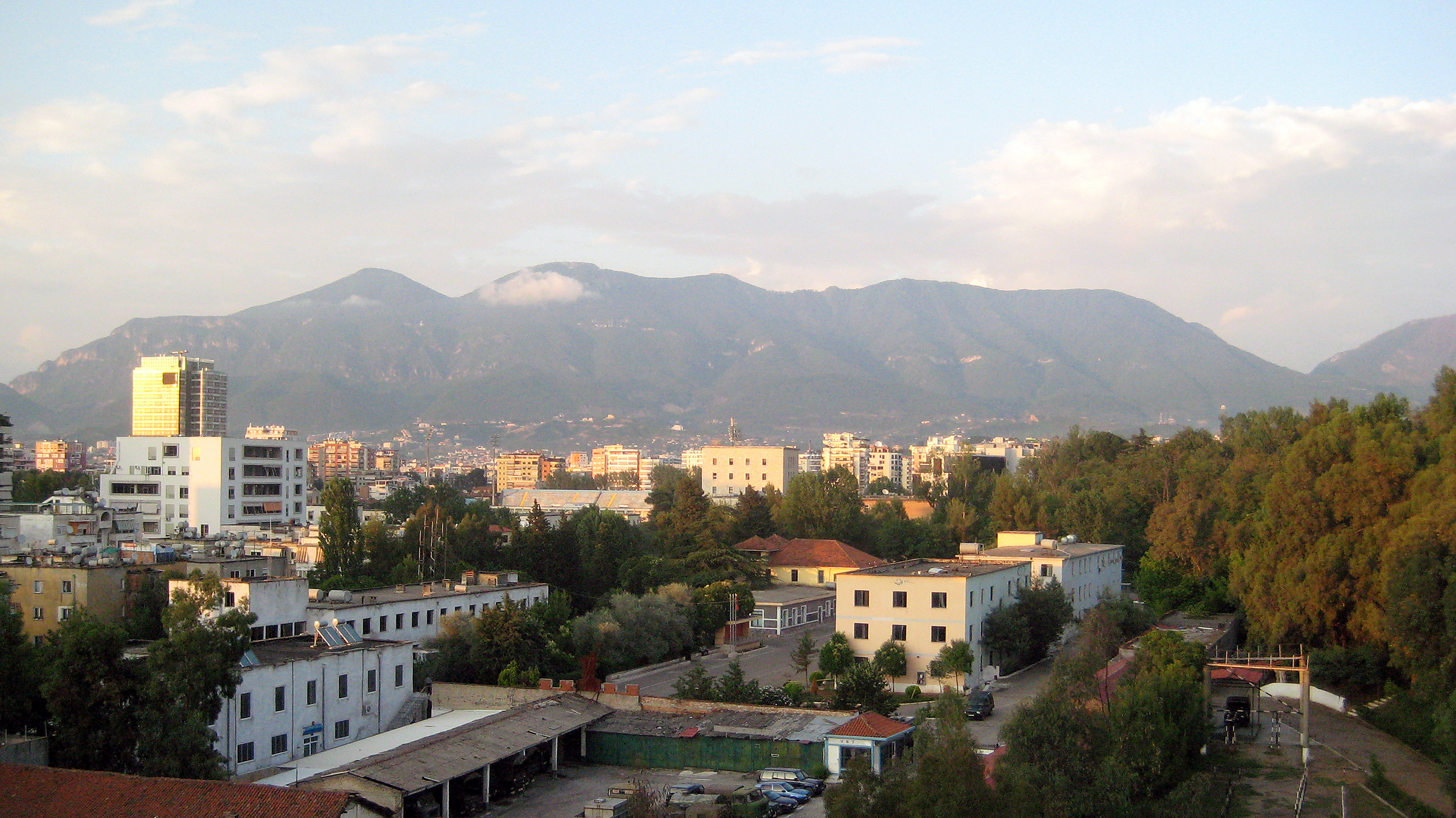 Tirana, Albania: Looking East to Mount Dajti